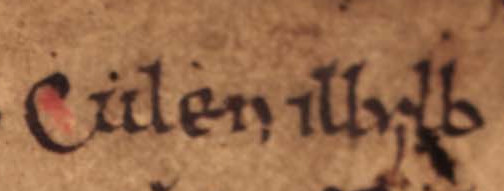 An excerpt from folio 33r of Oxford Bodleian Library MS Rawlinson B 489 (the Annals of Ulster). The excerpt concerns Cuilén mac Illuilb, King of Alba (died 971).